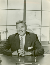 former Congressman Leonard Farbstein of New York.